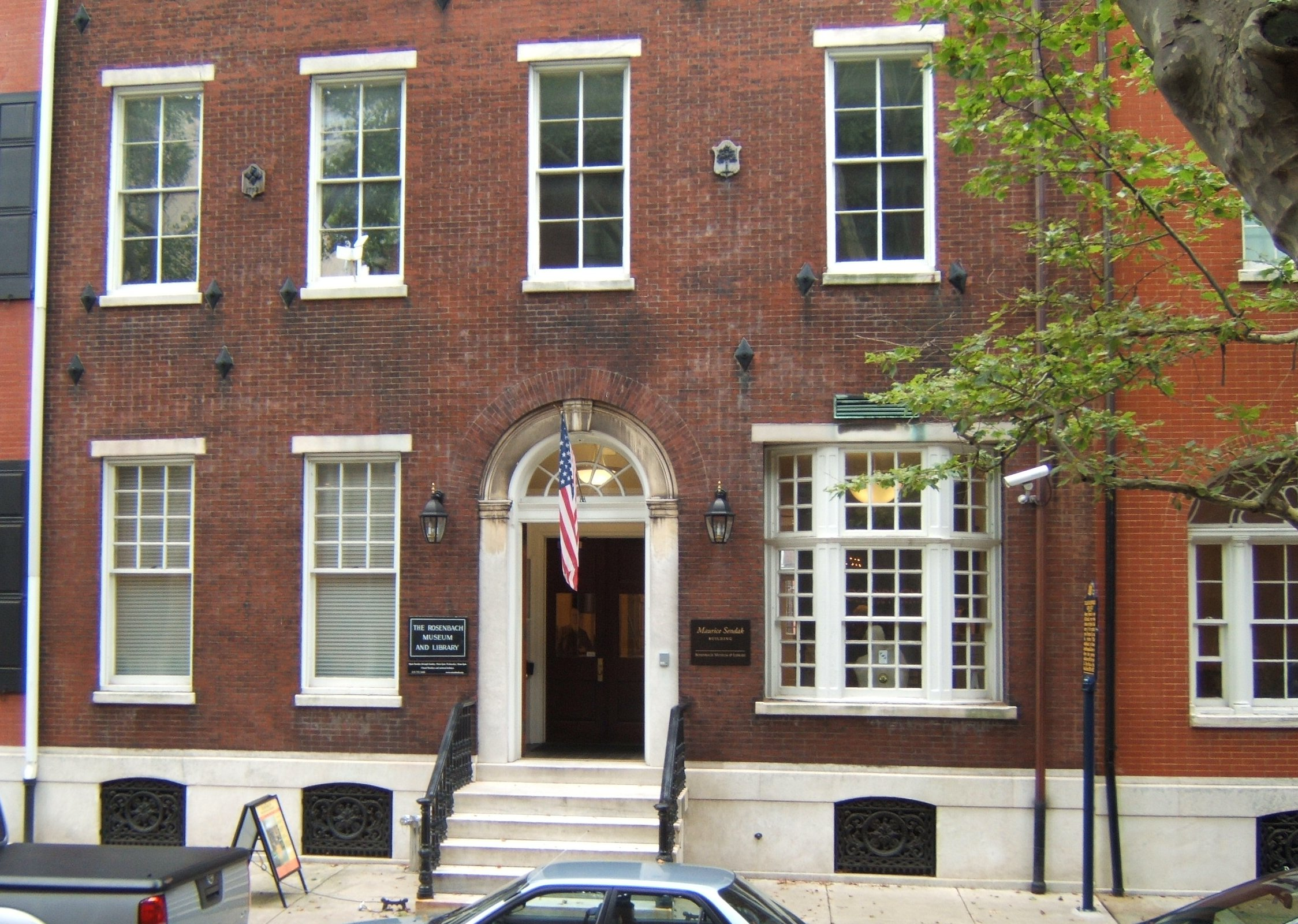 Rosenbach Museum and Library 2008-2010 Delancey Place Philadelphia, PA 19103 Home of Dr. A.S.W. Rosenbach (1876-1952) and his brother Philip, book dealers and collectors The Maurice Sendak Building, ca. 1860 Townhouse